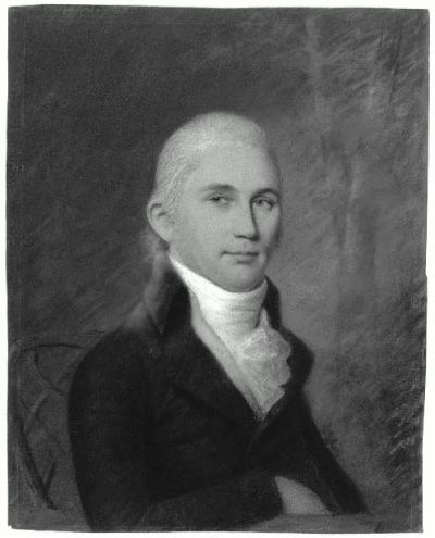 Portrait of American author and journalist Joseph Dennie, painted by England-born artist James Sharples about 1790. Bequeathed to the Museum of Fine Arts, Boston in 1905.